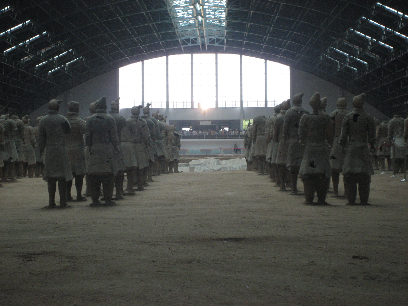 Rear view of the terra cotta army